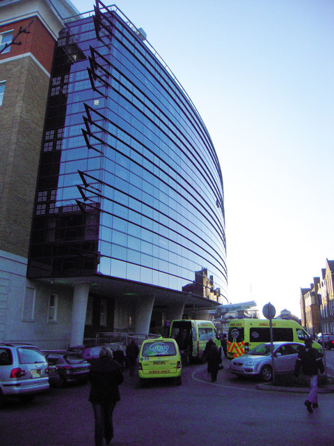 Golden Jubilee Wing, Kings College Hospital Golden Jubilee Wing and entrance to KCH (from Bessemer Road)